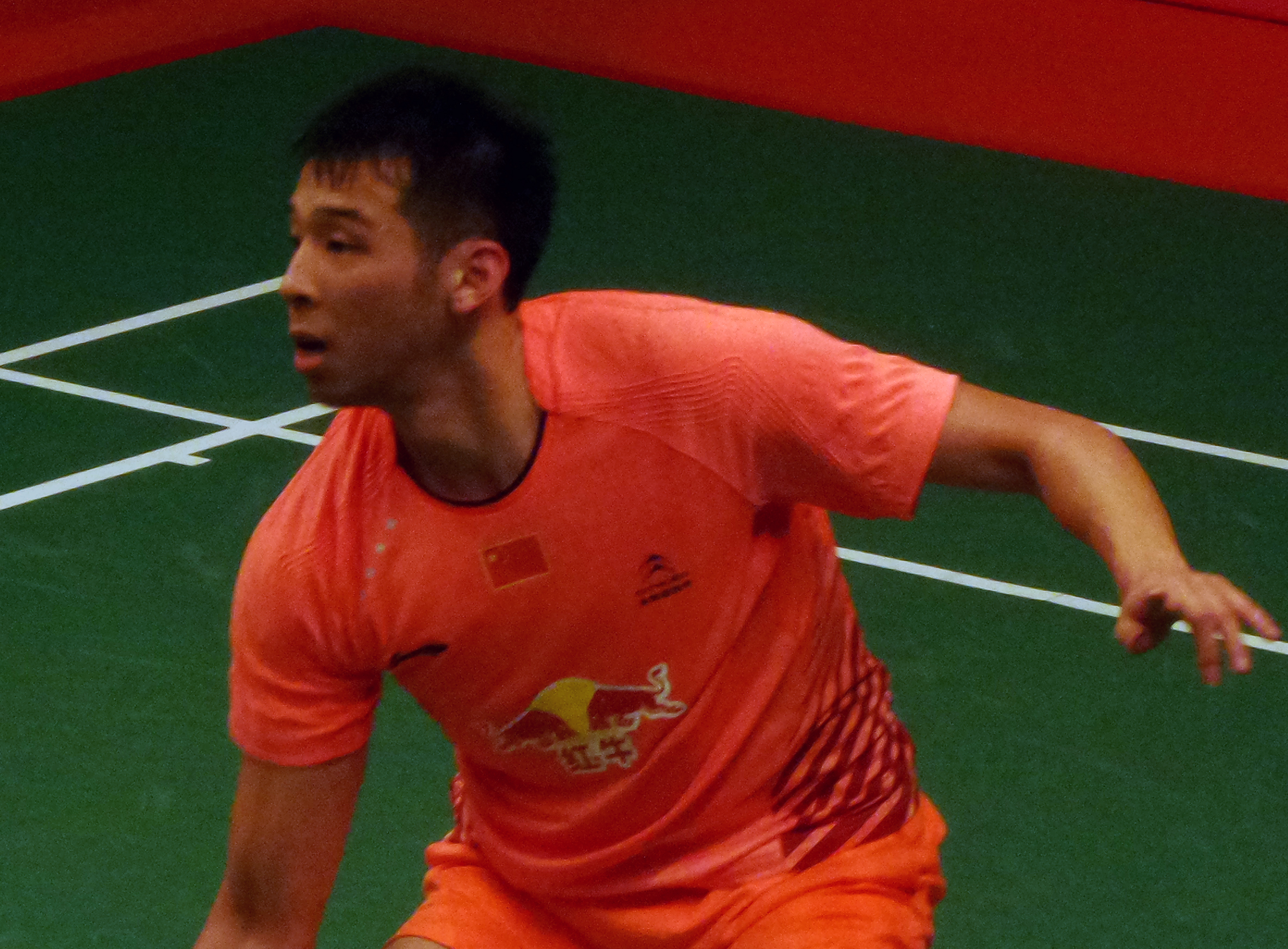 Lu Kai in action during Day 2 of the 2015 BWF World Championships